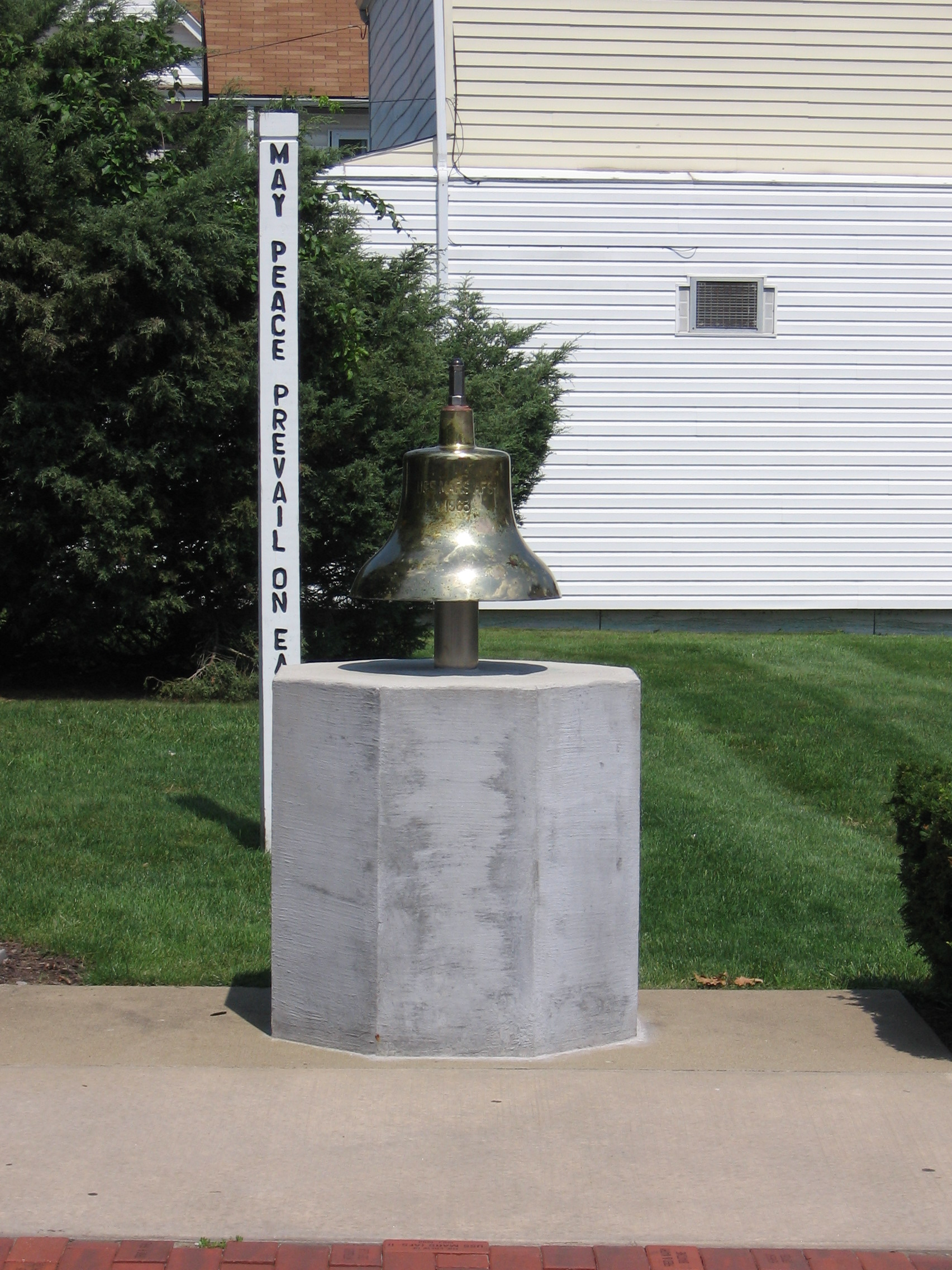 The bell of the USS Mars in downtown Mars. Photo taken by Mvincec| on 16 August, 2007.